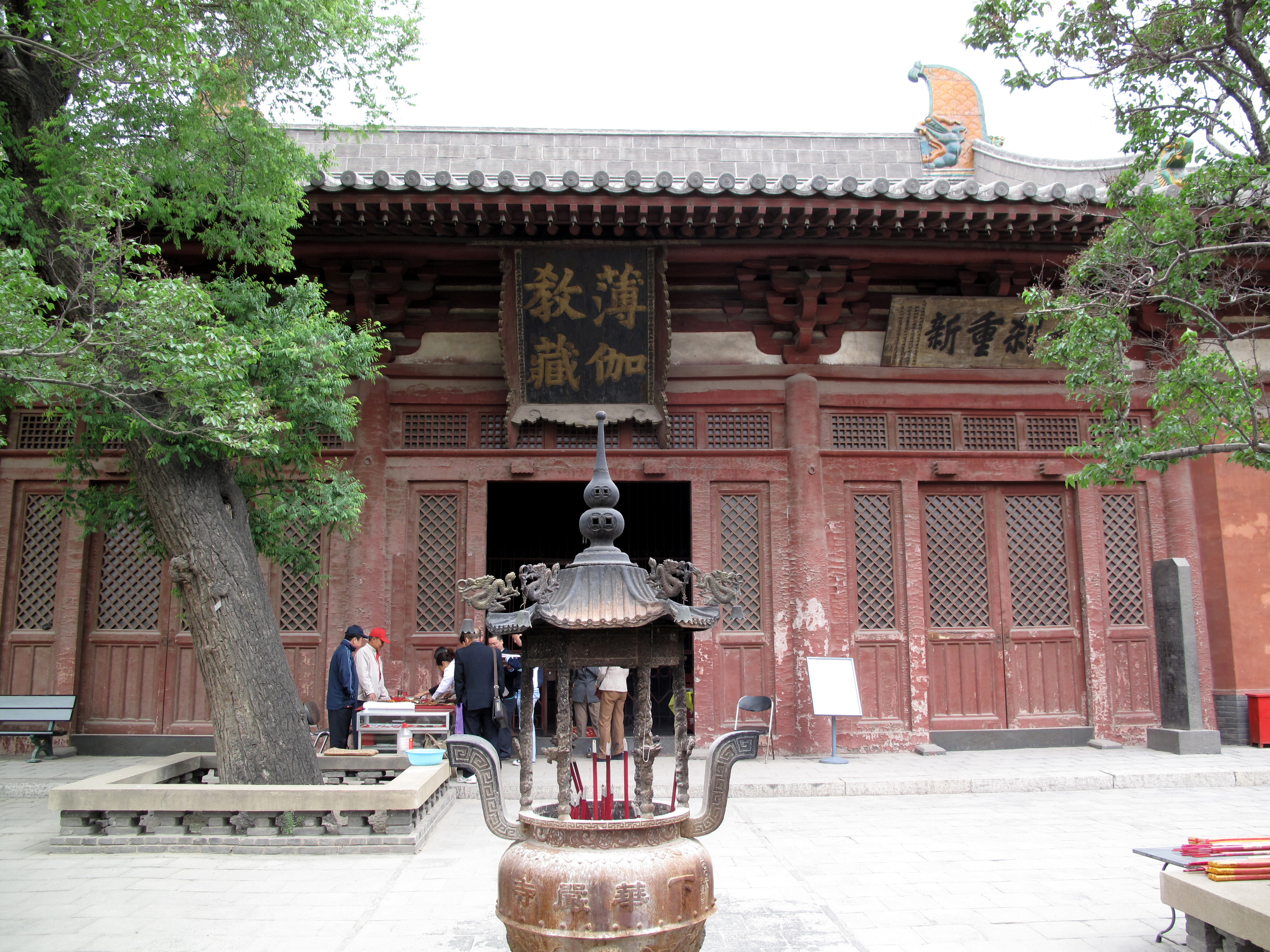 Sutra Hall. Liao, 1038. Huayan Si, Datong The Sutra Hall (Bojia Jiao Zang Dian) is located on the lower level of the temple. It houses 38 sutra cabinets that are constructed like miniature buildings of the period; there are three notable Liao sculptural groups with Shakyamuni, Maitreya, Amitabha, and Bodhisattvas on the altar. The hall is five bays wide, with a hip-gable roof.